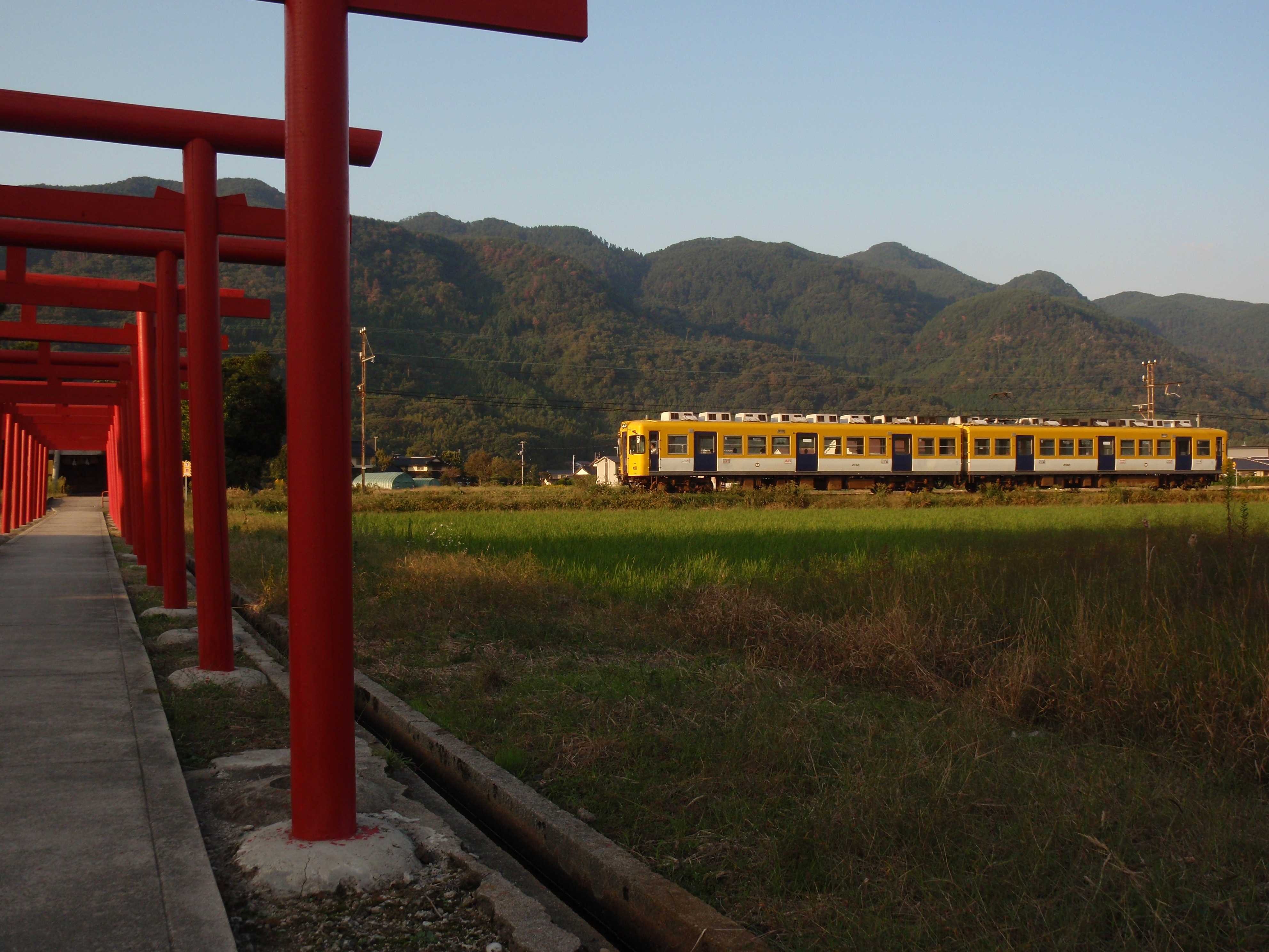 EMU Type 2100 No.2102 and 2112 by Ichibata Electric Railway on Taisha Line.